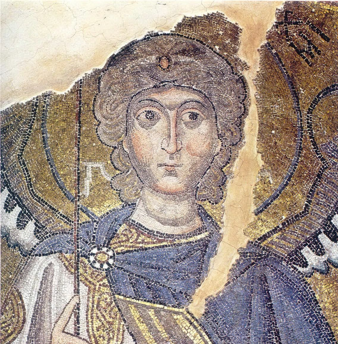 Archangel Michael (mosaic in Nea Moni)